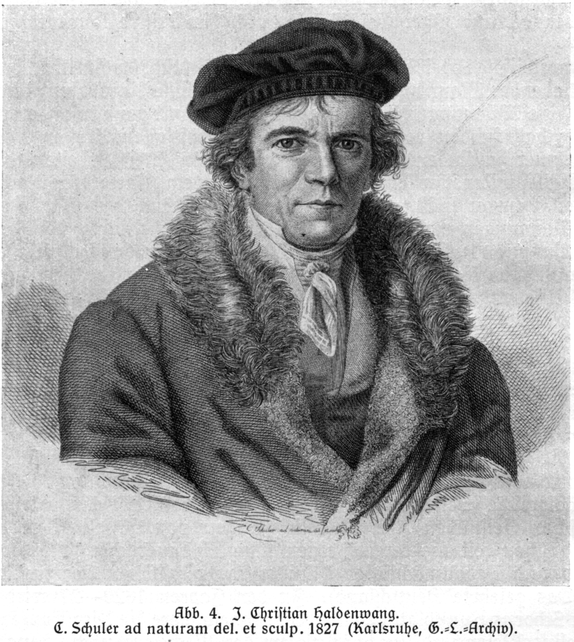 C. Schuler: Portrait of German engraver Christian Haldenwang (1770-1831), dated 1827, inscription: "Abb. 4. J. Christian Haldenwang. C. Schuler ad naturam del. et sculp 1827 (Karlsruhe, G[eneral]-L[andes]-Archiv)."